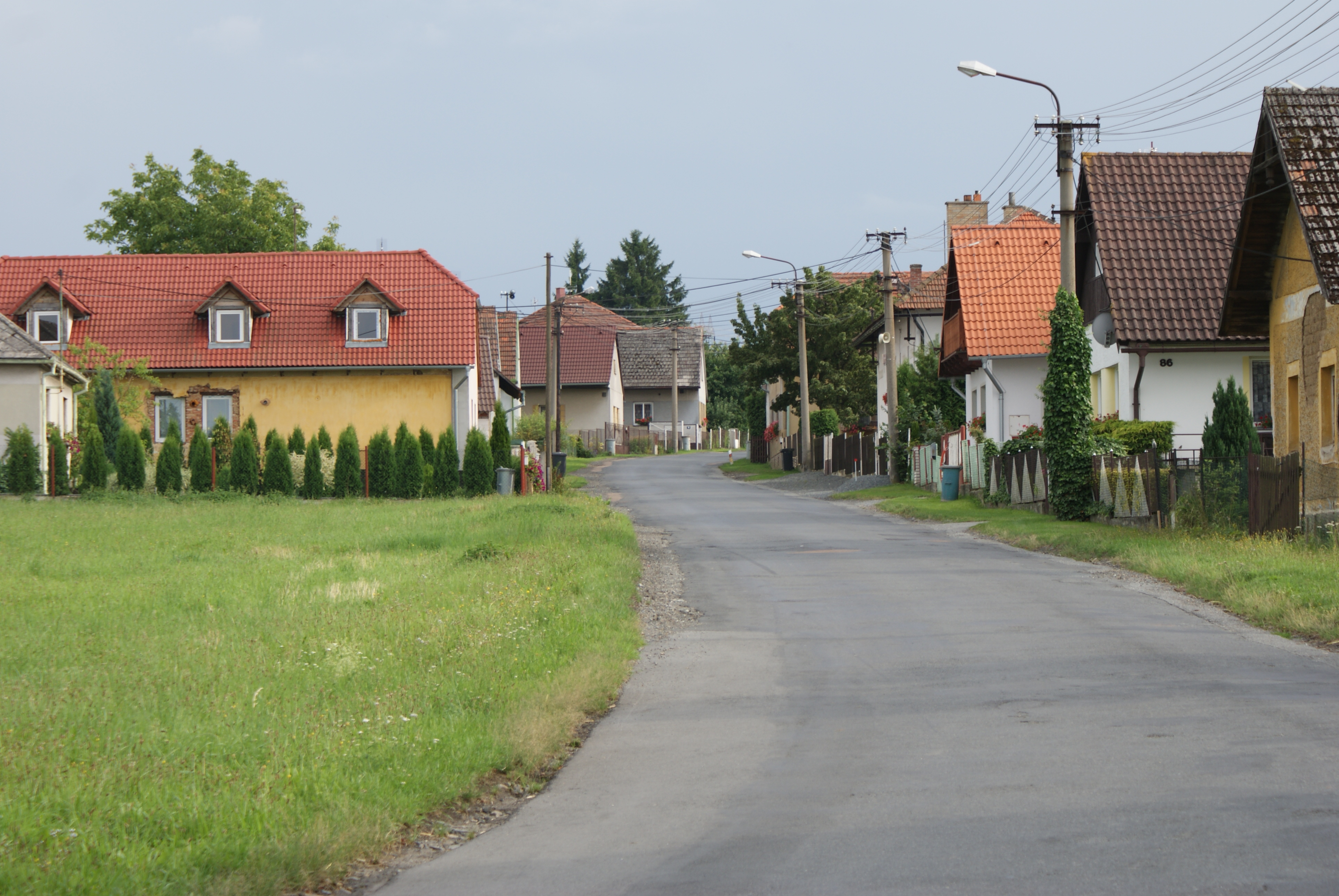 Jarov, a village in Plzeň-South District, Czech Rep., a main street view.